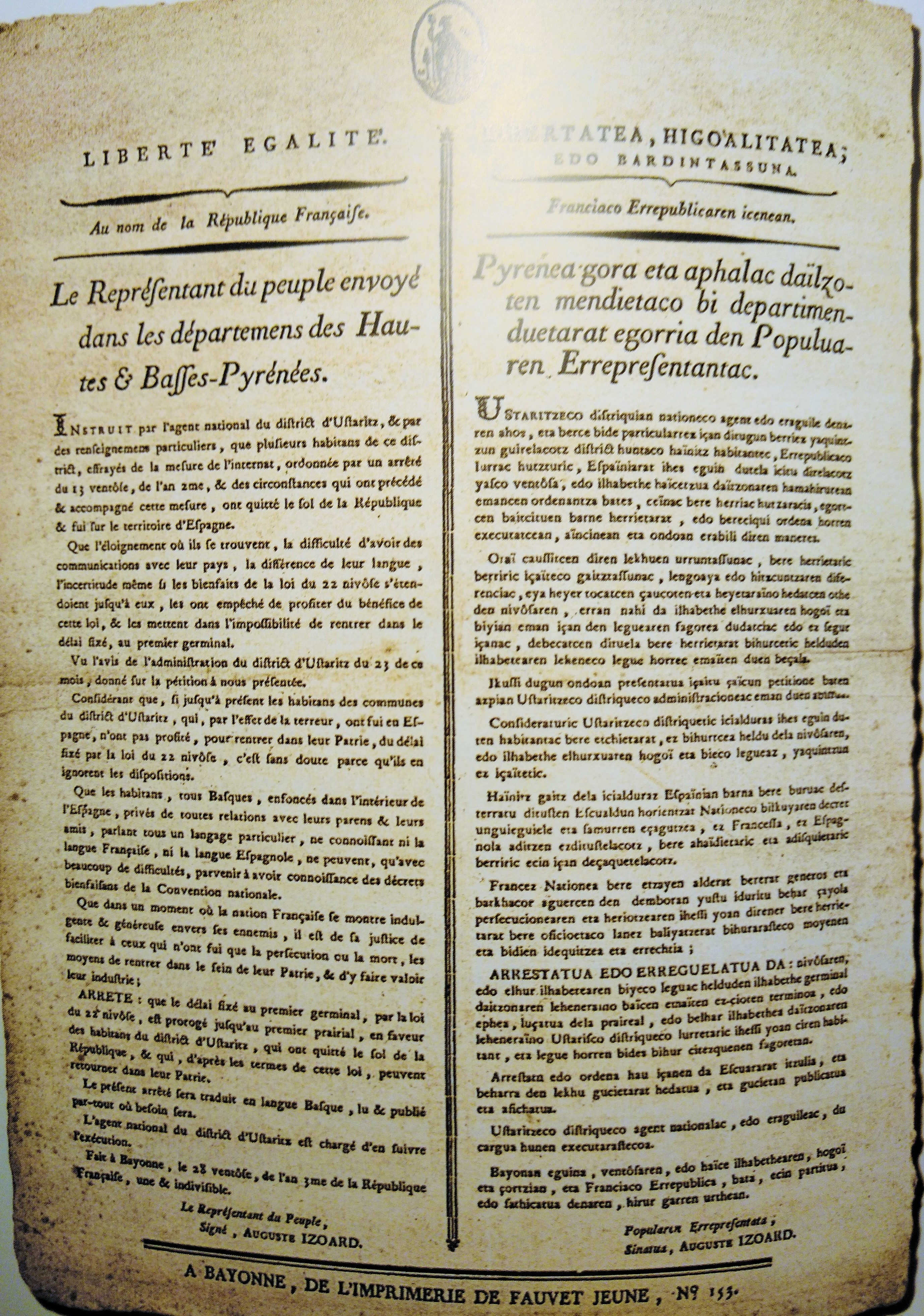 FR-EU bilingual notice printed and issued by the National Convention in Bayonne, Basque Country, in the newly created departement of Lower Pyrenees, France (approx. 1794)